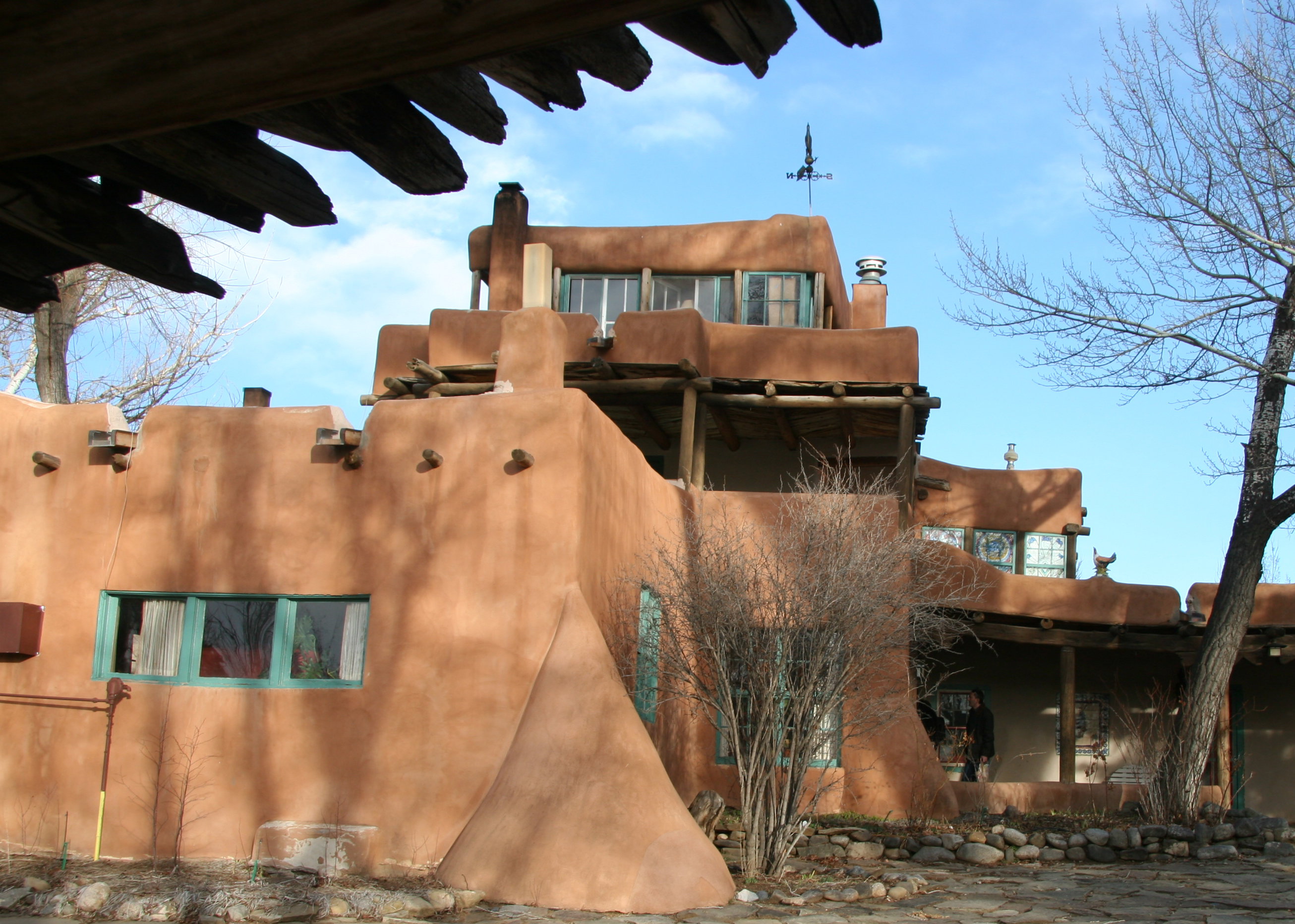 Marbel Luhan's House